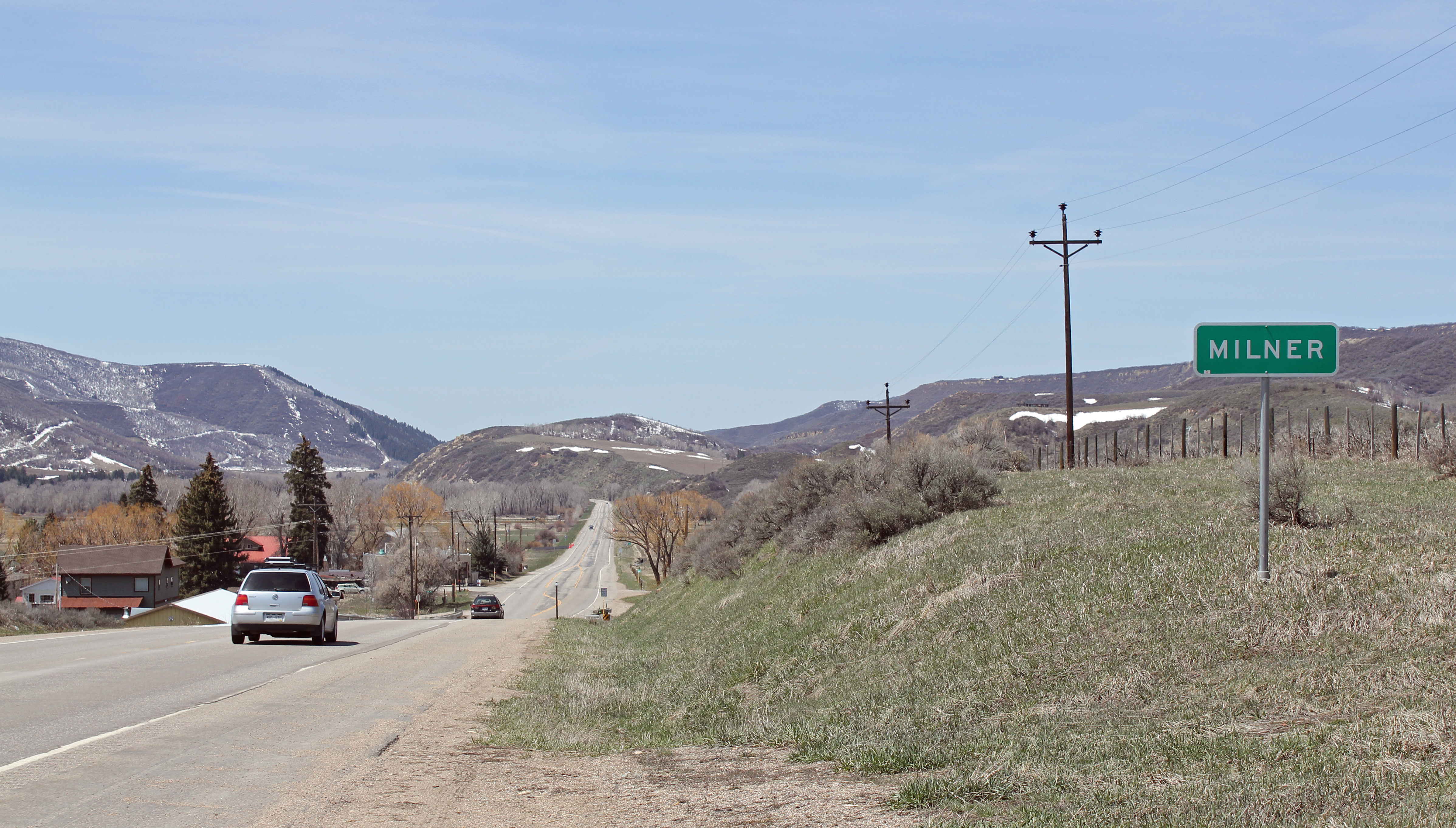 The town of Milner, Colorado, located in Routt County. The highway in the picture is U.S. Route 40.